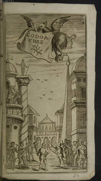 Giovanni Varischino: L'Odoacre (libretto, cover)